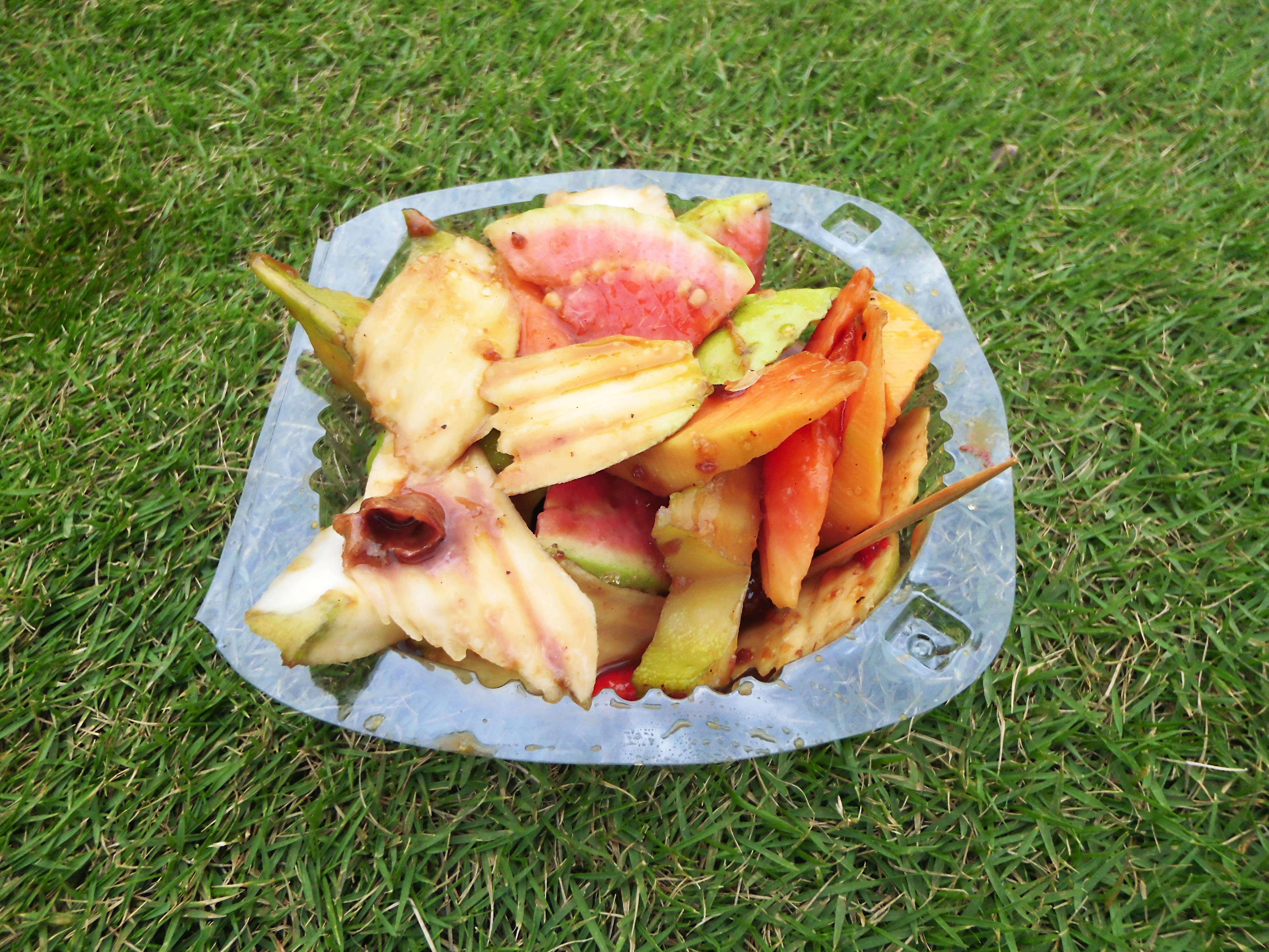 Balinese rujak buah (fruit rujak) is pieces of tropical fruits (young mango, papaya, guava, and kedondong) served in palm sugar and spicy chili sauce. Tanah Lot, Bali, Indonesia.